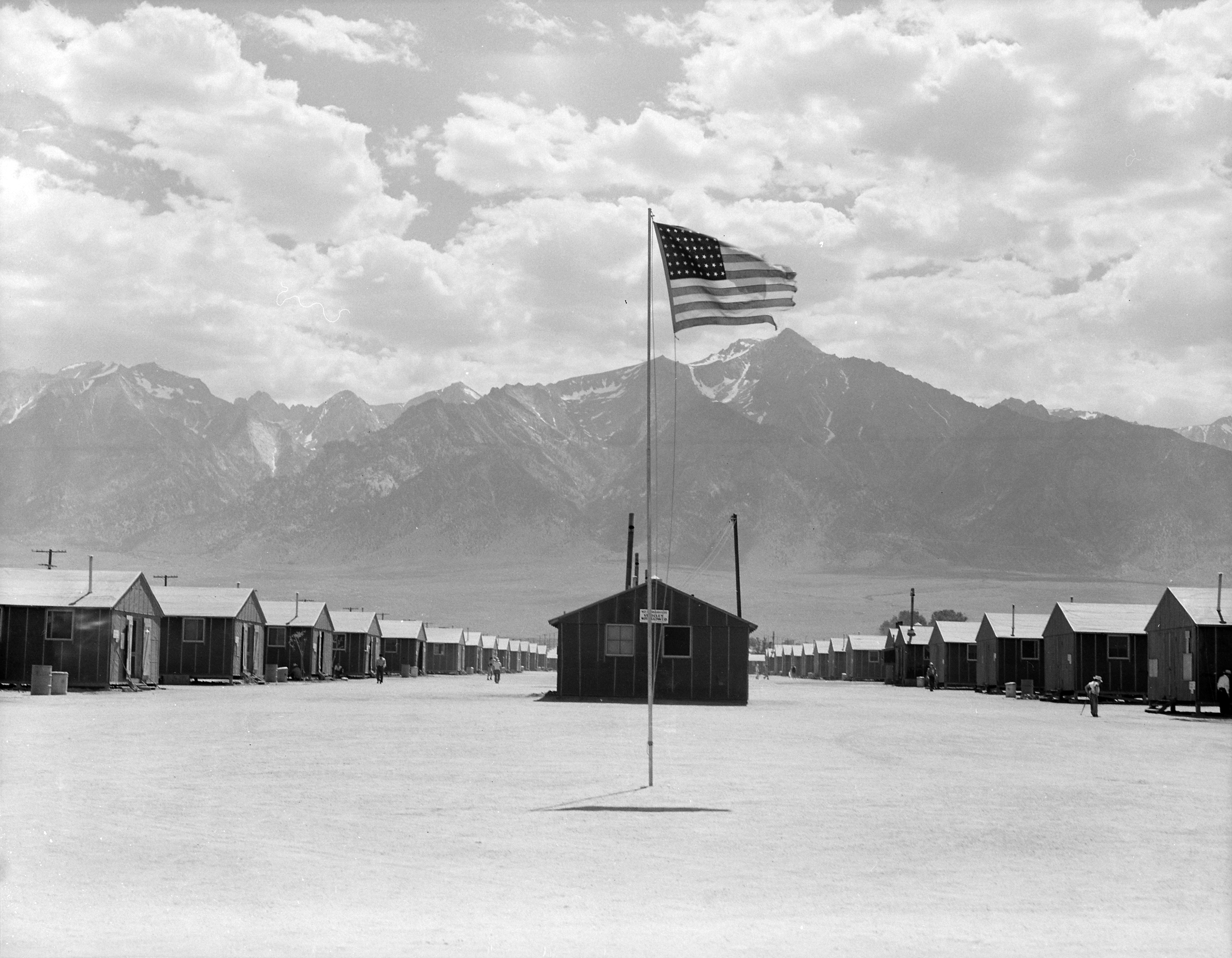 Scope and content: The full caption for this photograph reads: Manzanar Relocation Center, Manzanar, California. Street scene of barrack homes at this War Relocation Authority Center. The windstorm has subsided and the dust has settled.